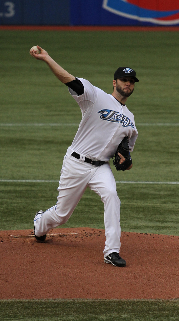 Brandon Morrow